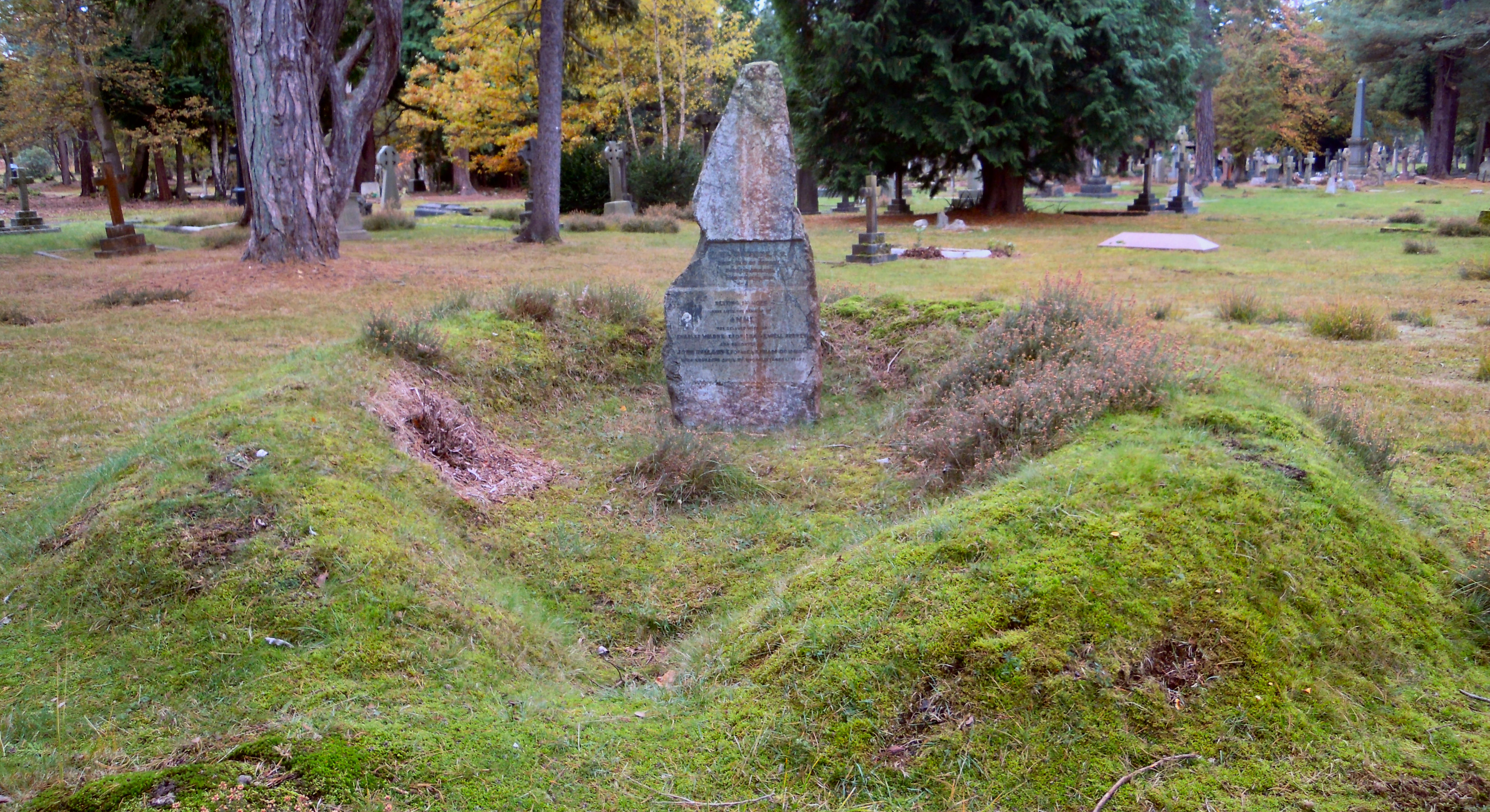 The grave of Charles Warne in Brookwood Cemetery, designed to resemble a prehistoric barrow with the upright stone being made from serpentinite.